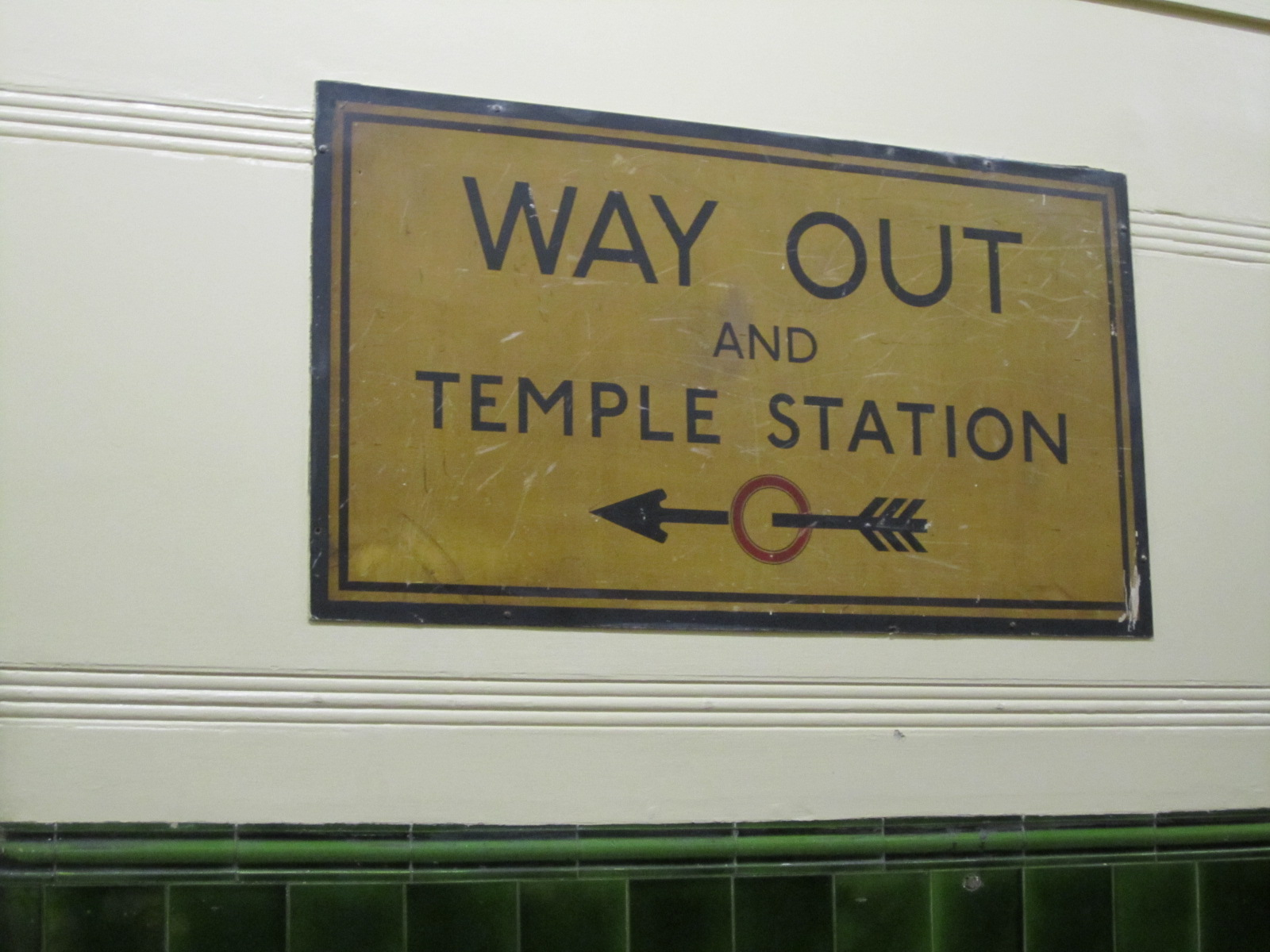 From my London Underground Tube Diary